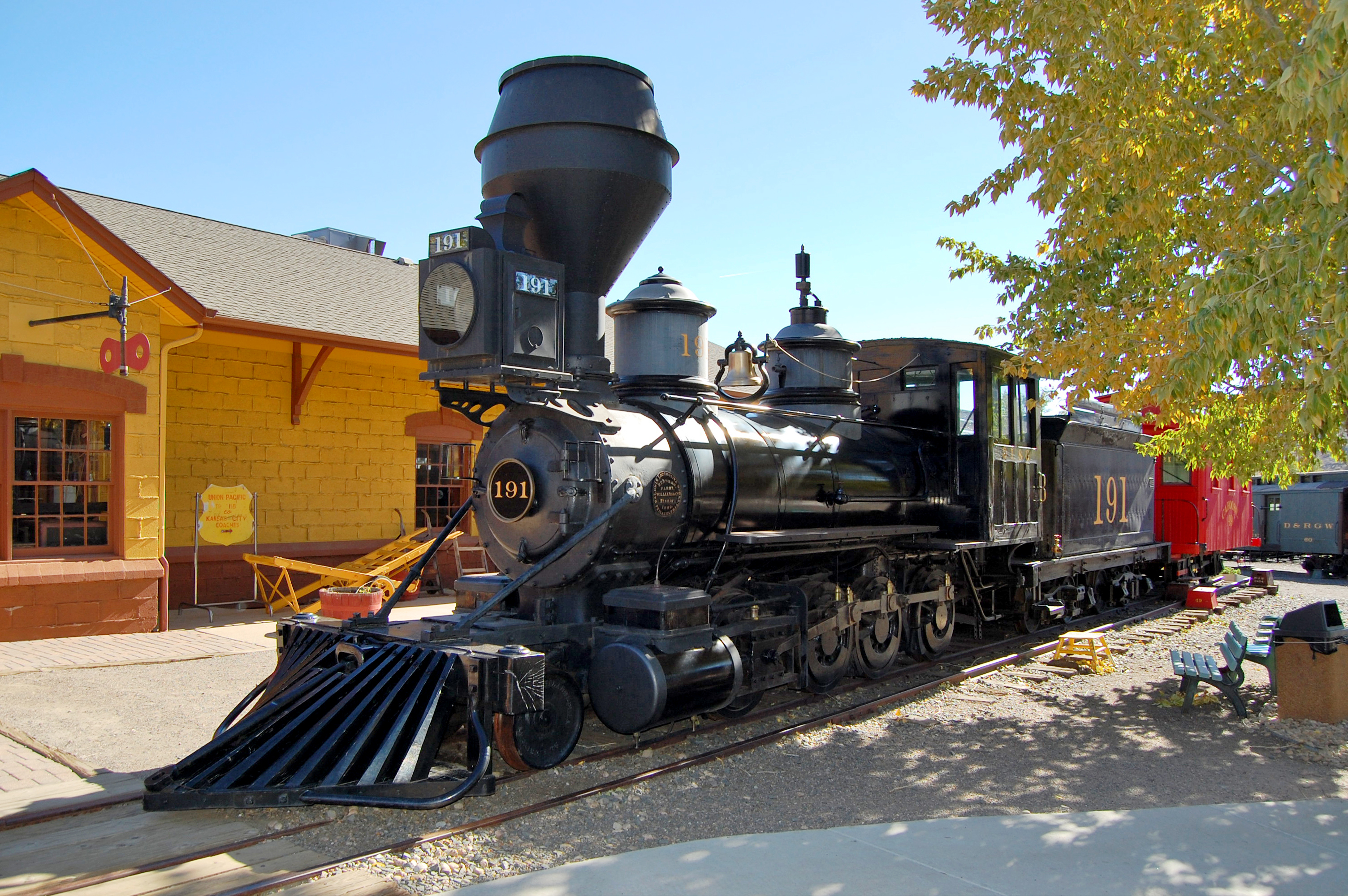 Steam locomotive DL&G #191, the oldest steam locomotive in Colorado Railroad Museum Manufacturer: Baldwin Locomotive Works - Philadelphia Burnham, Parry, Williams & Co. - No. 4919 - 1880